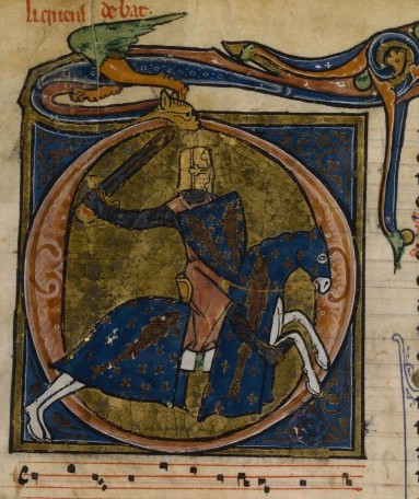 Theobald II of Bar